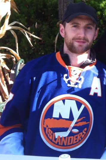 Andrew MacDonald in October 2013